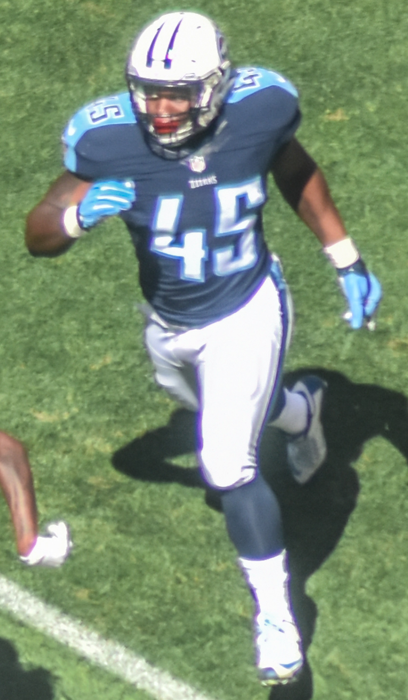 Titans at Browns 2015